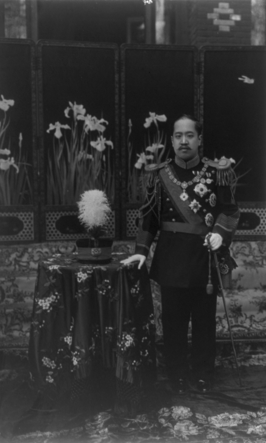 Sunjong of the Korean Empire Portrait